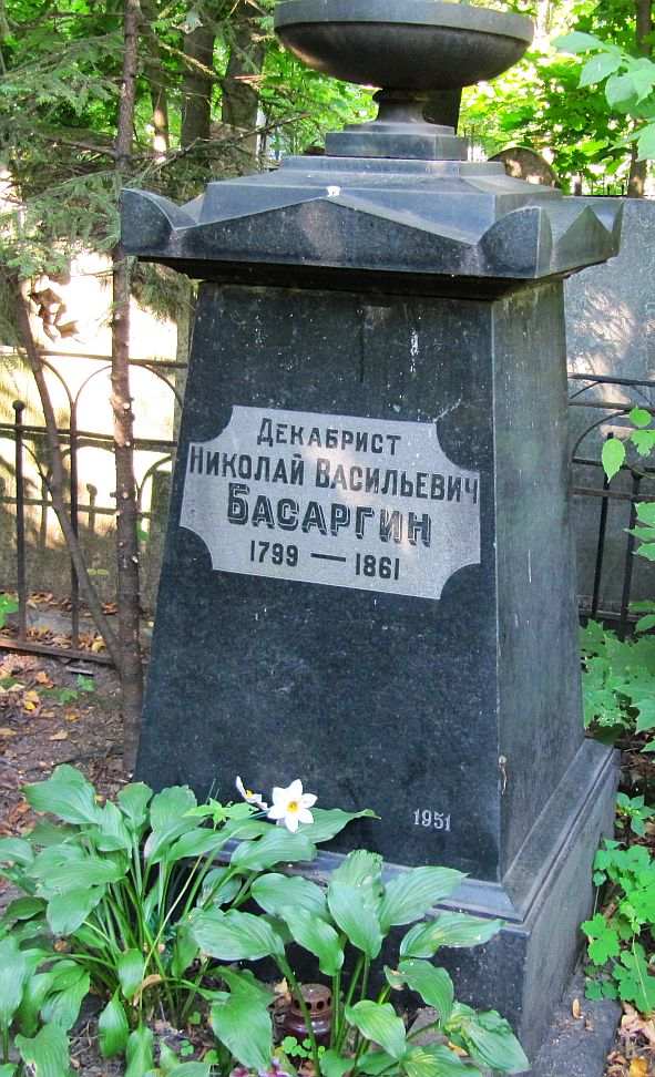 Nicolas Basargin (Decemberist) Tomb in Piatnitskoe Cemetery, Moscow